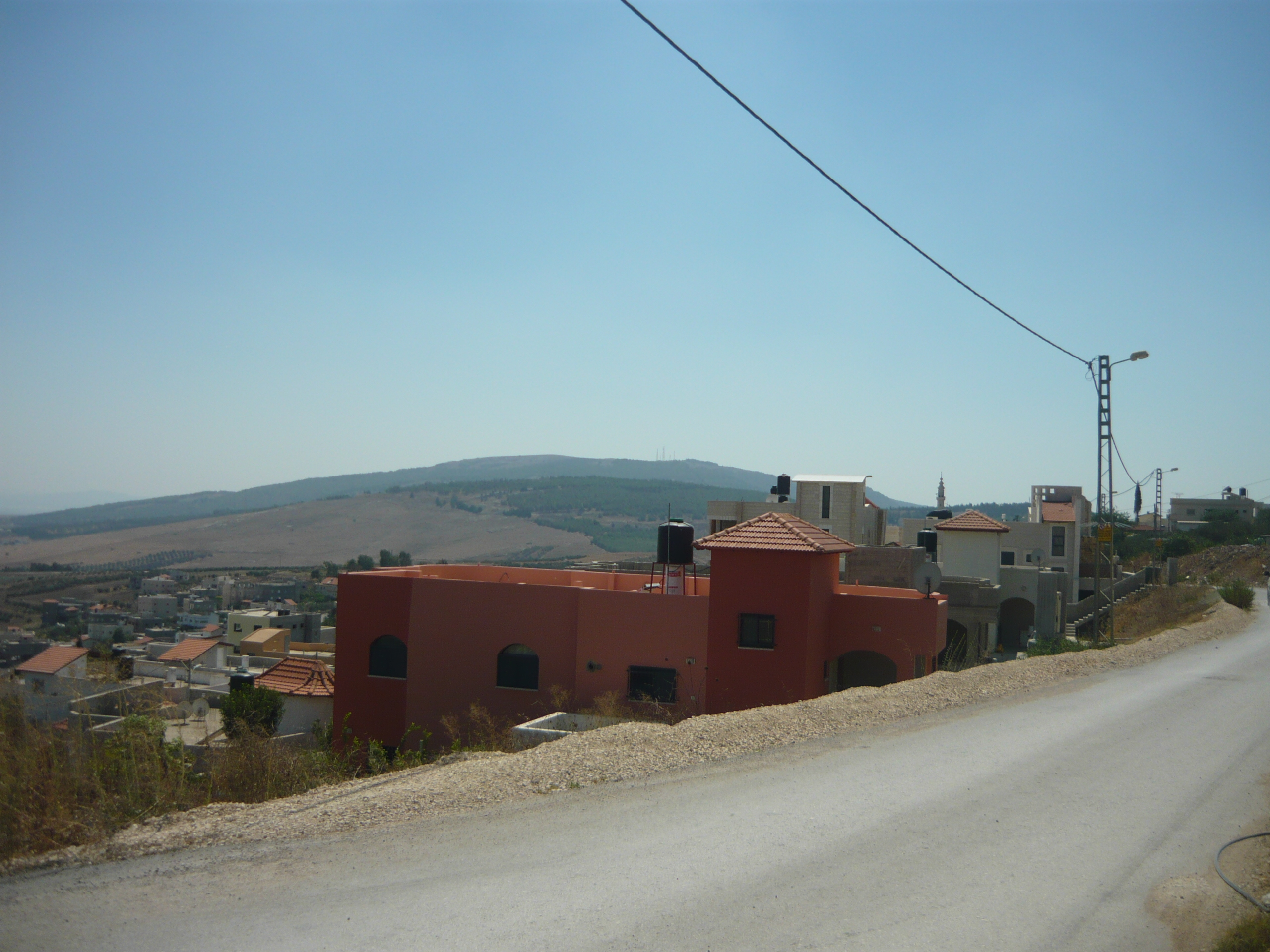 tamra zouabiye טמרה זועבייה